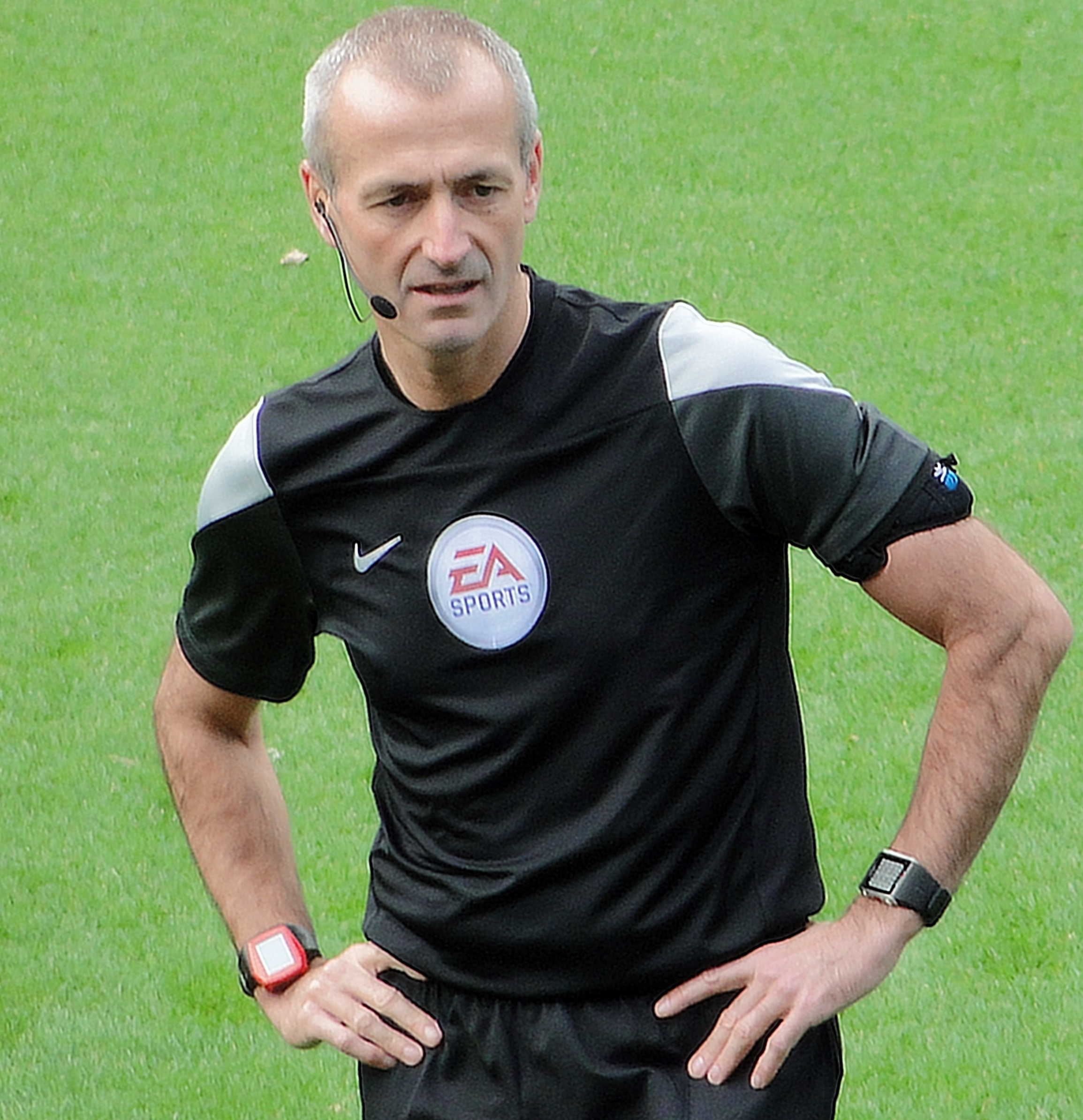 Premier League referee, Martin Atkinson before the game between West Ham United and Manchester City at the Boleyn ground, October 2014